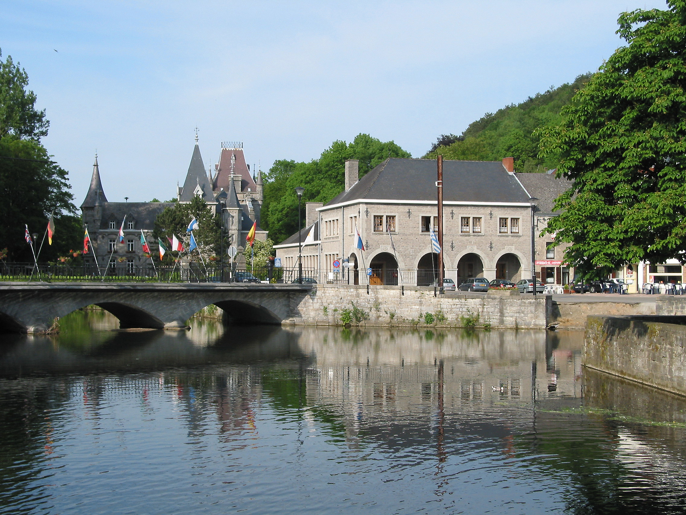 Nismes (Belgium), the castle, the post office and the bridge on the Eau Noire river.